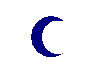 XI Corps, Army of the Potomac, 3rd Division Badge